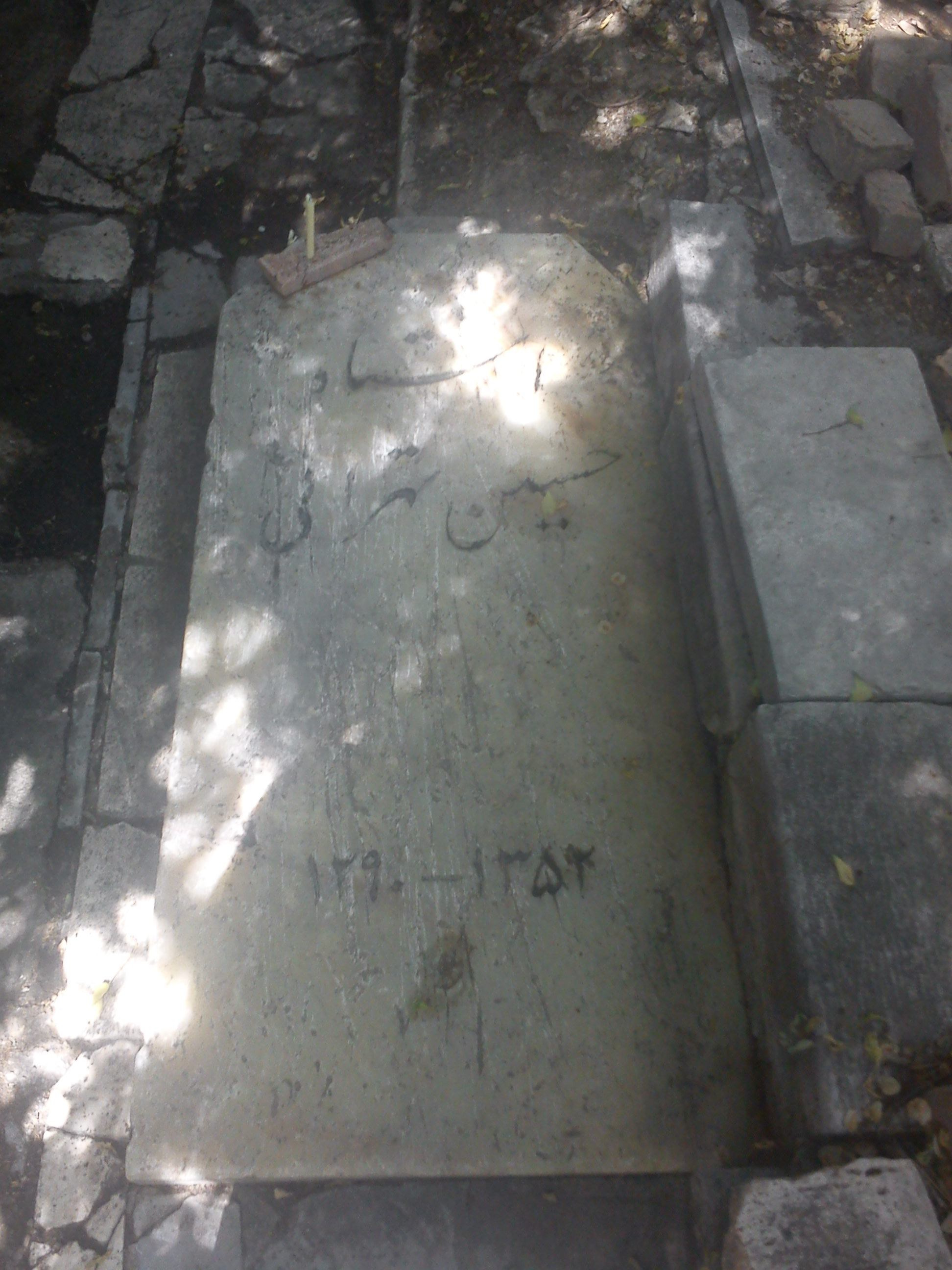 Gravestone of Hossein Tehrani, Iranian musician.